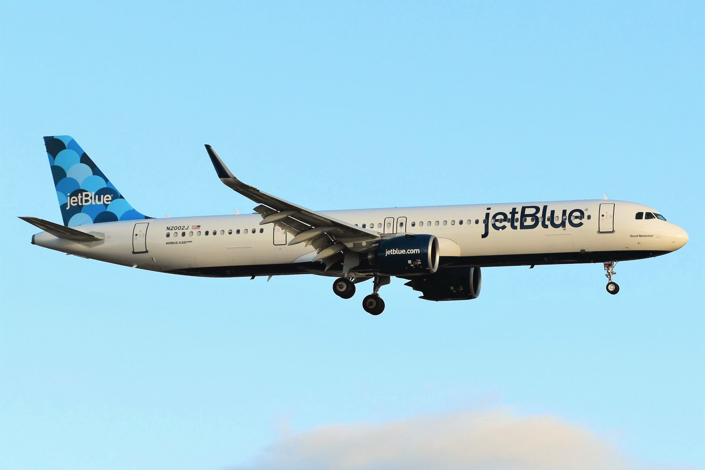 JetBlue's first Airbus A321neo is on final approach to JFK Airport as Flight B6 302.